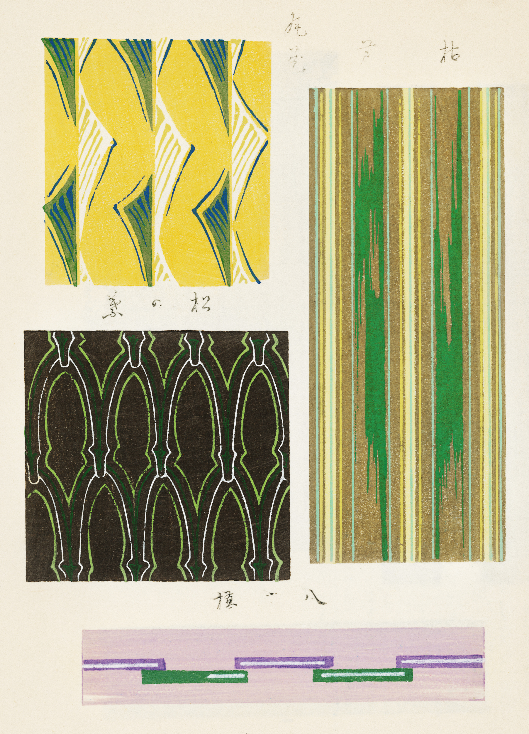 Vintage woodblock print of Japanese textile from Shima-Shima (1904) by Furuya Korin. Digitally enhanced from our own original edition.